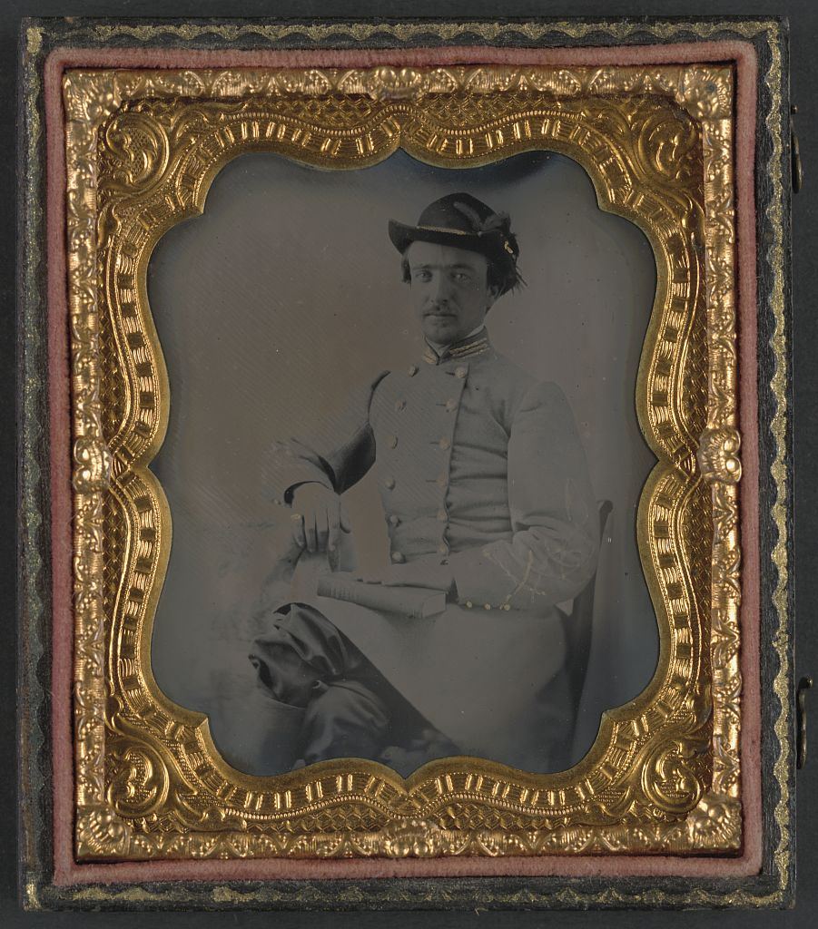 Title: Captain William A. Hill of Company D, 4th Virginia Cavalry Regiment, with book on lap Abstract/medium: 1 photograph : sixth-plate tintype, hand-colored ; 9.2 x 8.1 cm (case)